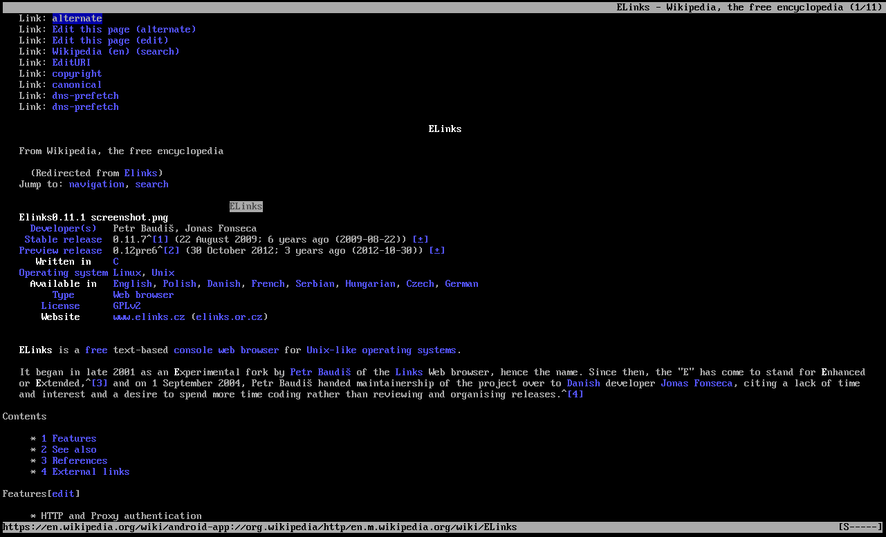 Screenshot of page in elinks